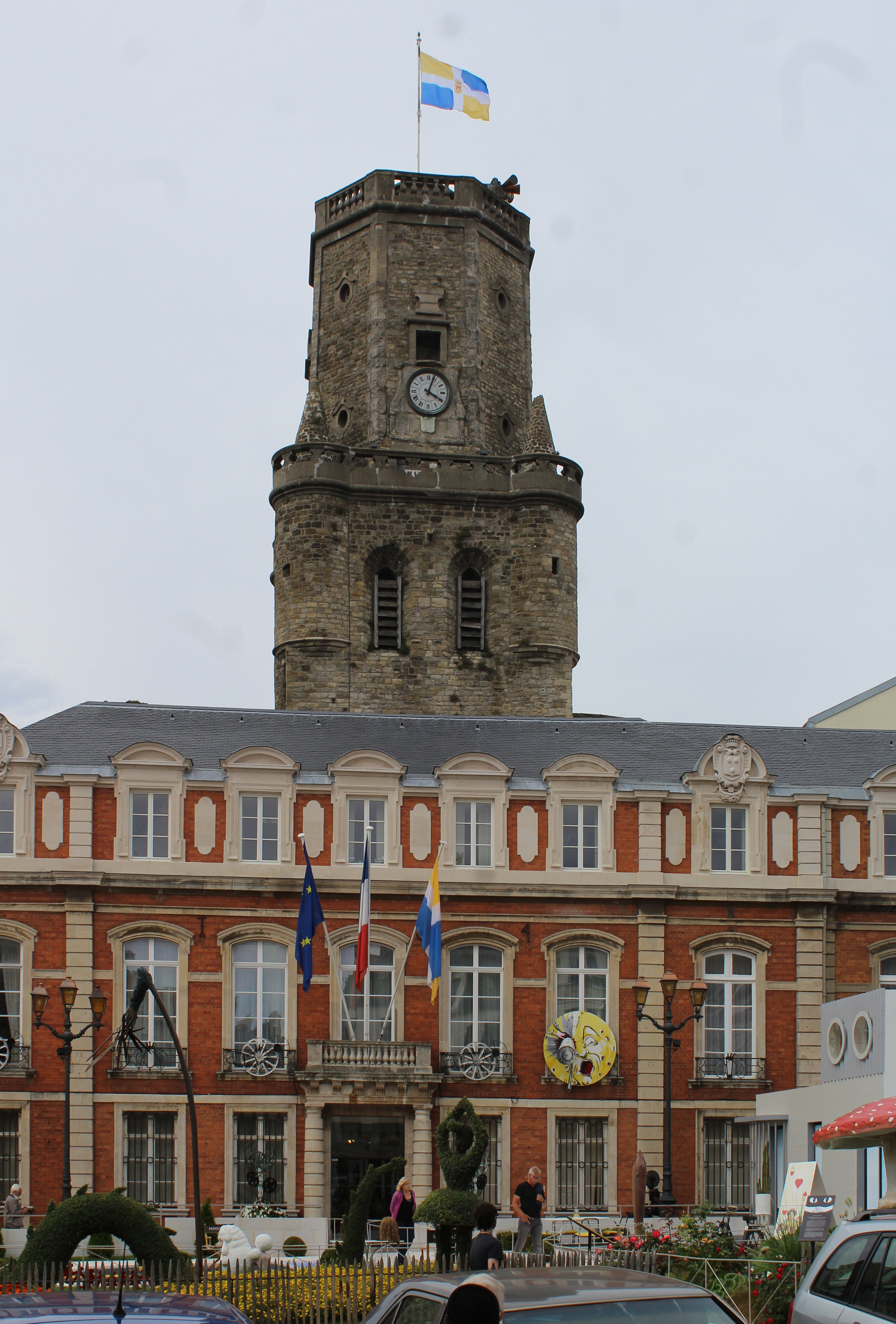 Boulogne-sur-Mer, town hall and belfry